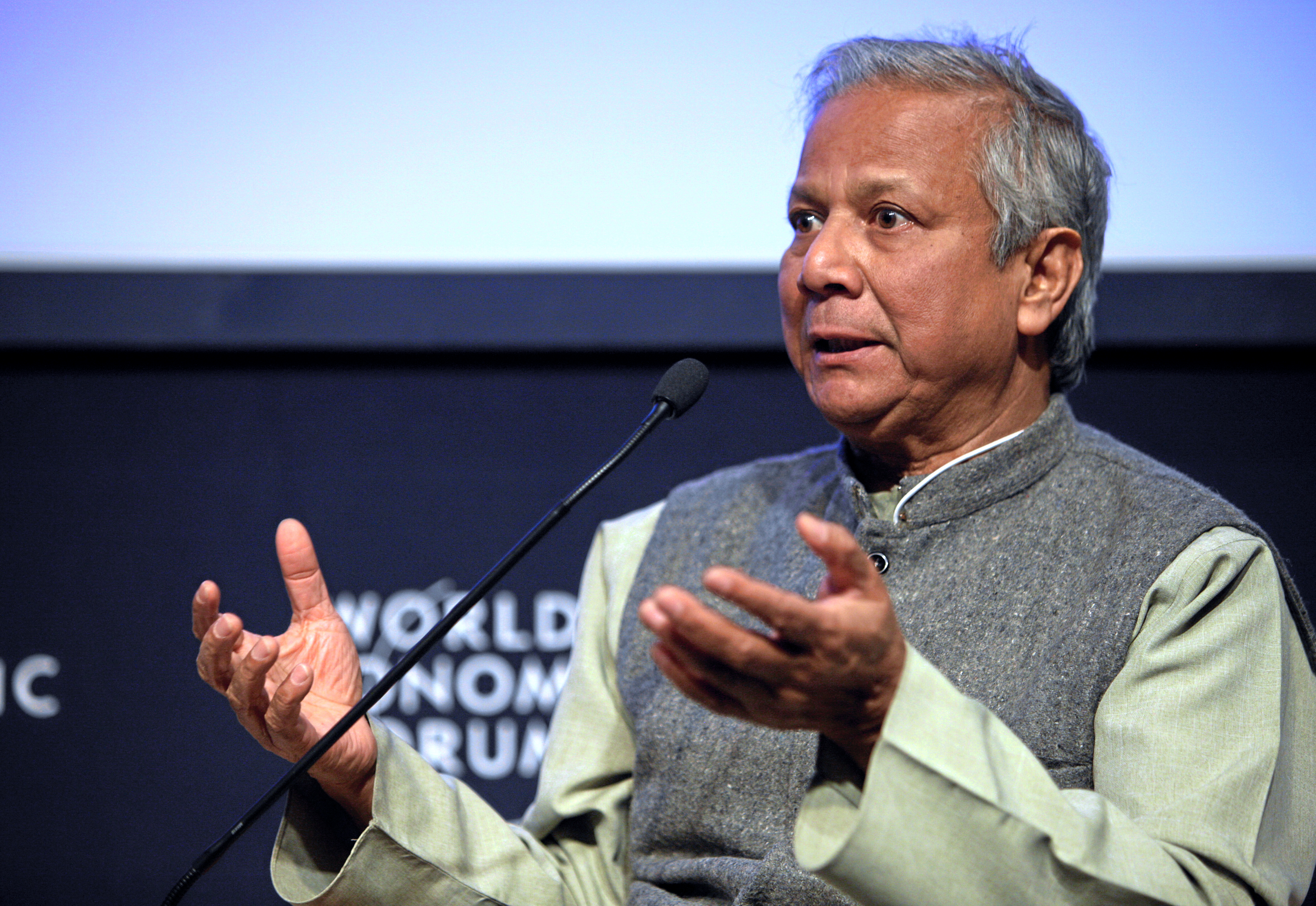 Muhammad Yunus, Managing Director, Grameen Bank, Bangladesh, listens during the session 'Restoring Growth through Social Business' at the Annual Meeting 2009 of the World Economic Forum in Davos, Switzerland.